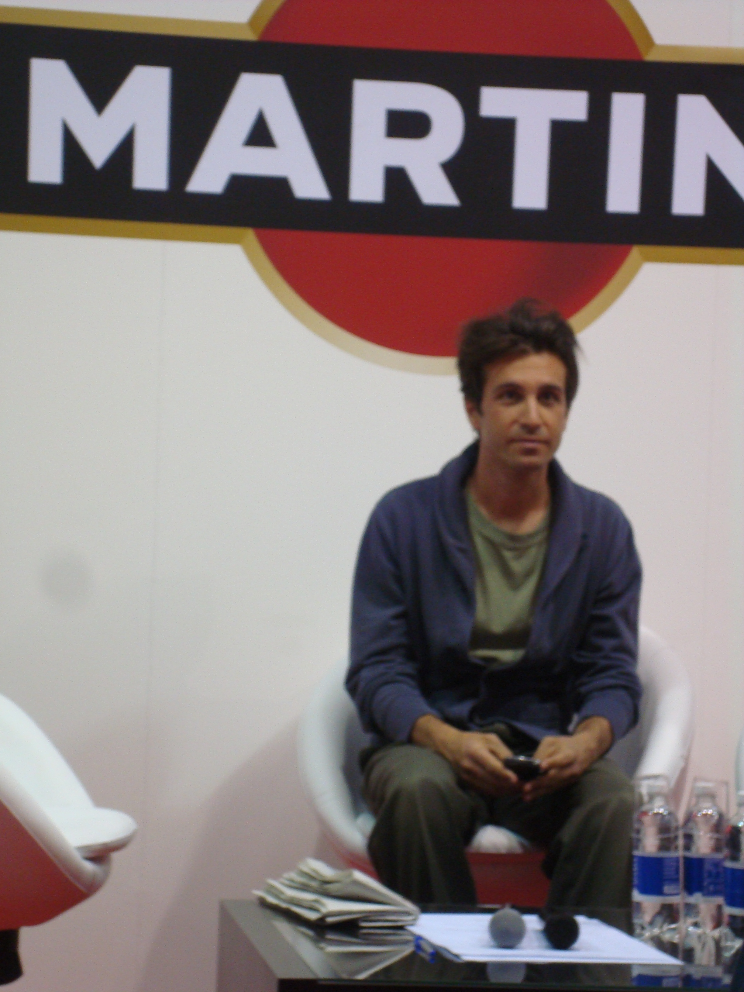 Martin